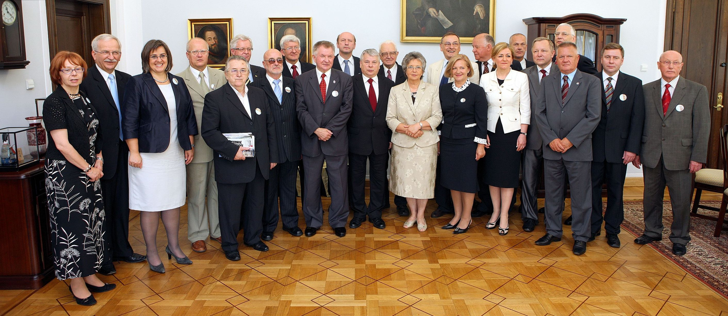 20th anniversary of re-establishment of the Polish Senate